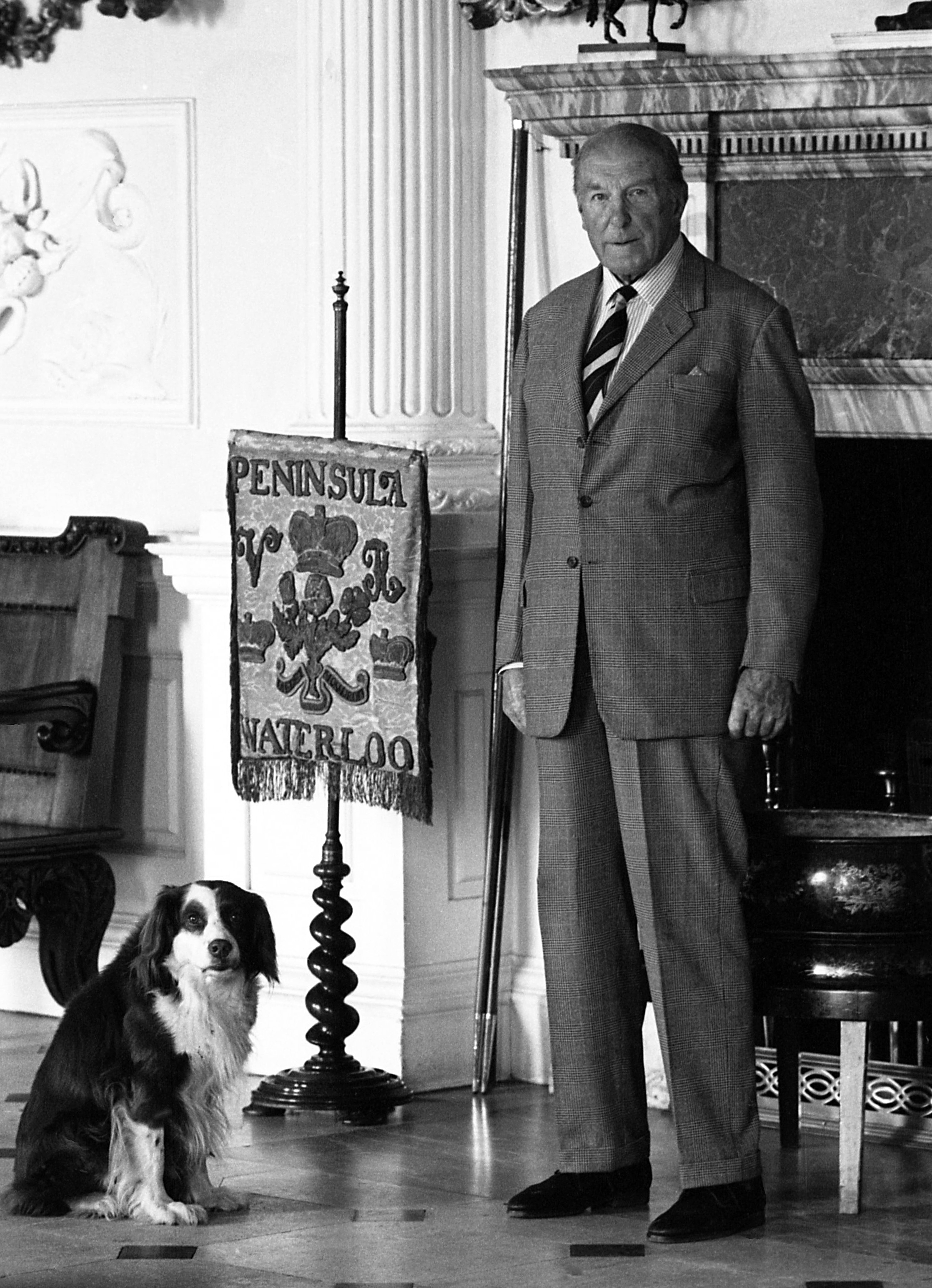 The 10th Duke of Beaufort & his home Badminton.